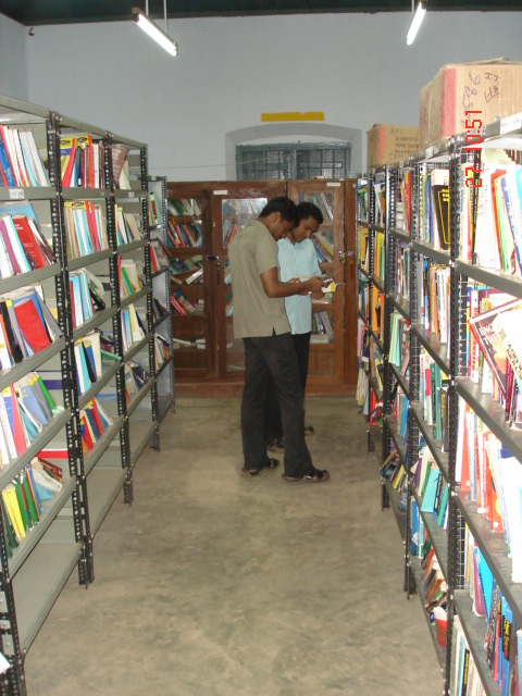 Mexxian 2:40, 8 March 2007 (UTC)